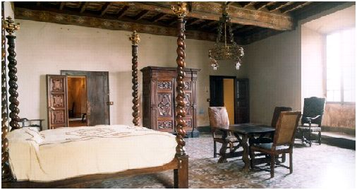 Interior view of Bianello's Castle